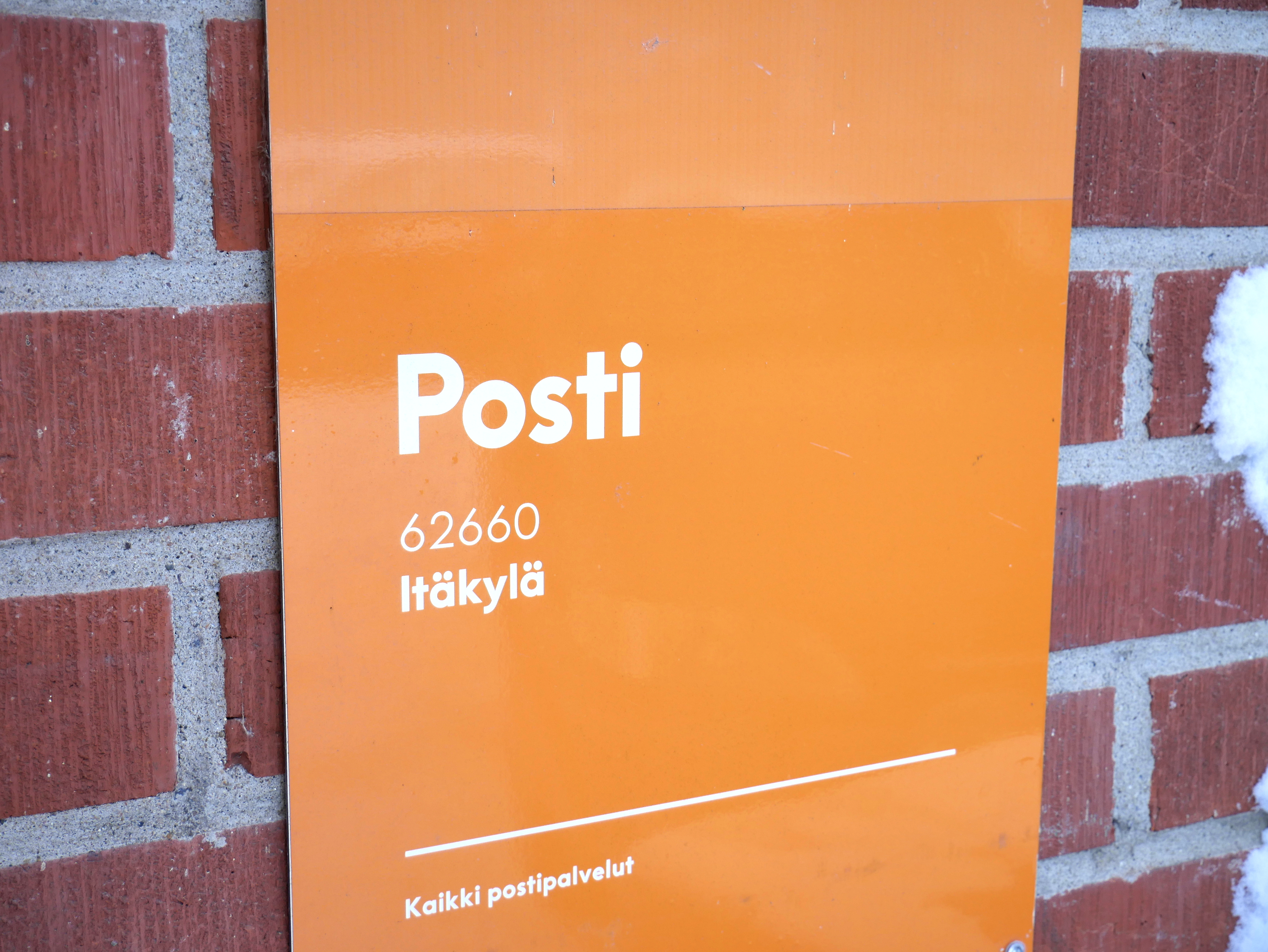 Finnish postal code 62660 in Itäkylä, Lappajärvi.